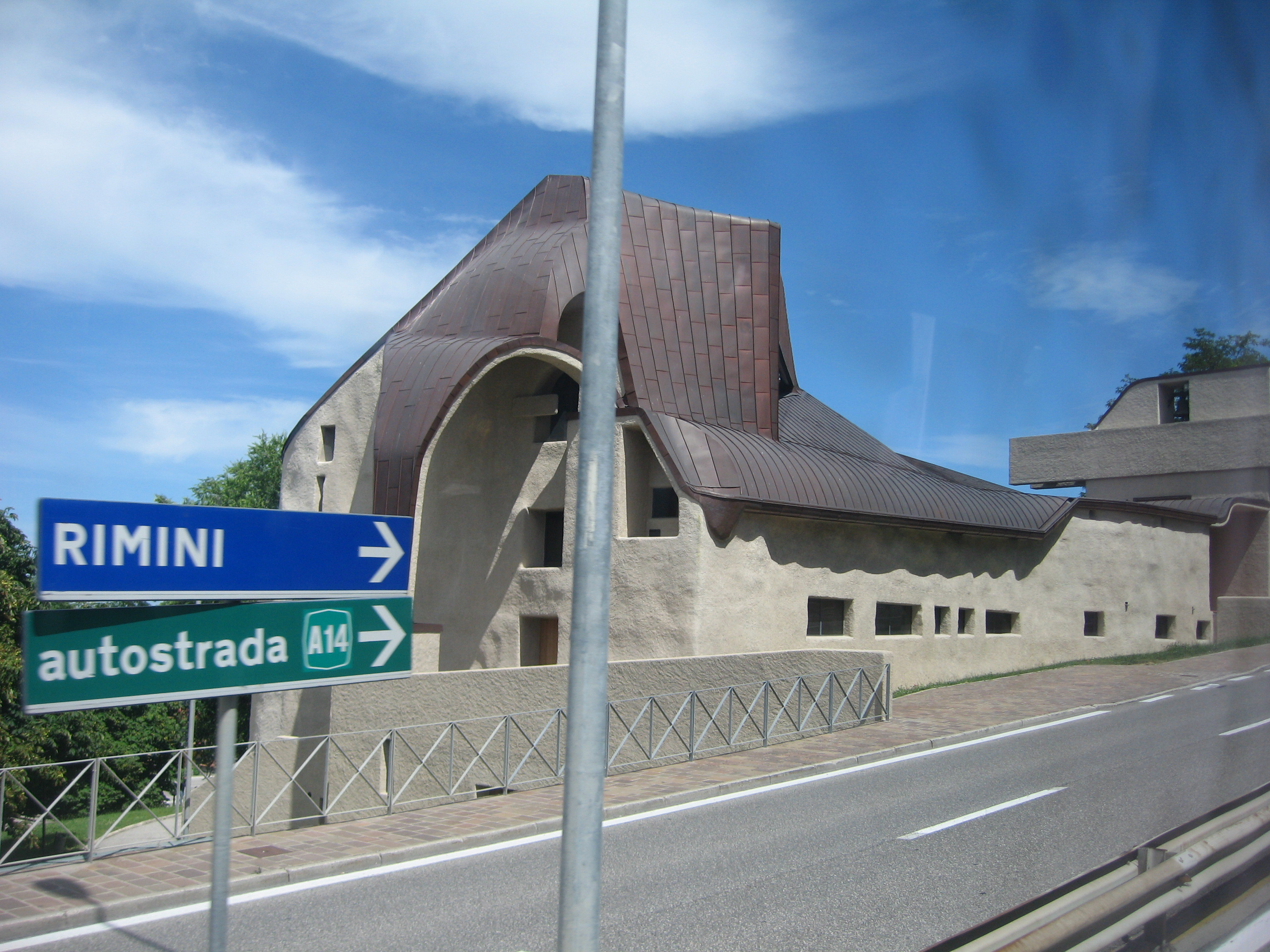 Image of San Marino